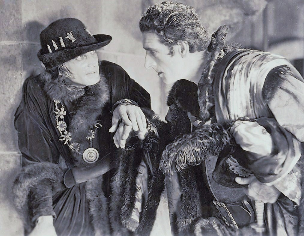 Conrad Veidt (left) and Lawson Butt in The Beloved Rogue (1927) - publicity still (original image damaged, modified and cropped : see source)